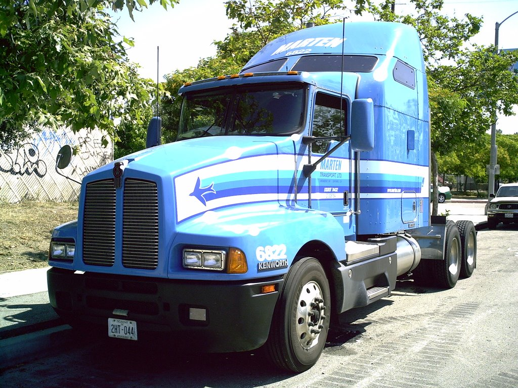 Kenworth T600B (built after 1997) belonging to Marten transportation - Venice of America (Los Angeles)